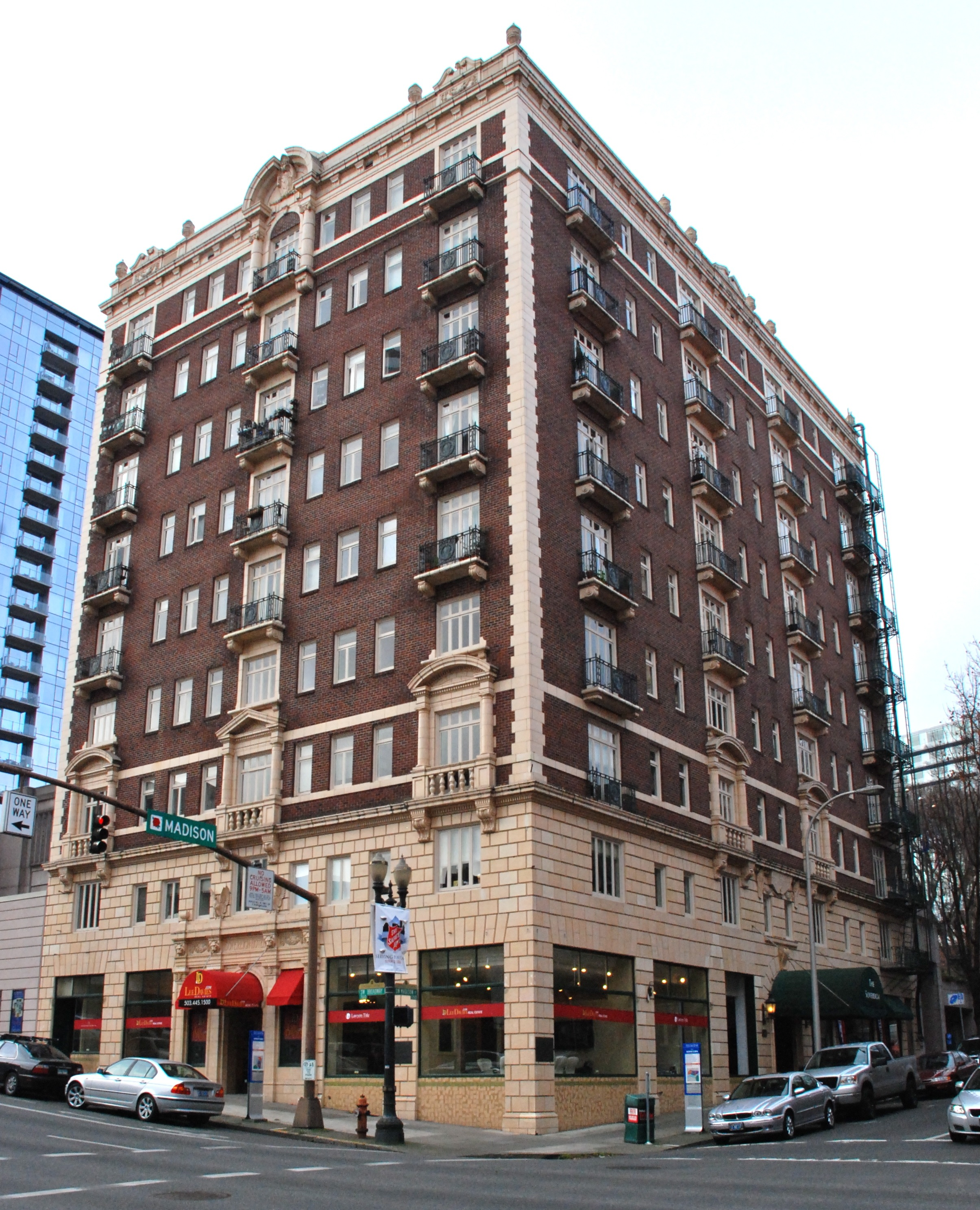 The former Sovereign Hotel, in Portland, Oregon, is a historic 1923 building that is listed on the U.S. National Register of Historic Places. It was converted into apartments in 1938. Since the 1980s, the Oregon Historical Society has owned the building and has used part of it for its museum, the Oregon History Center.